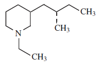 Stenusine structure